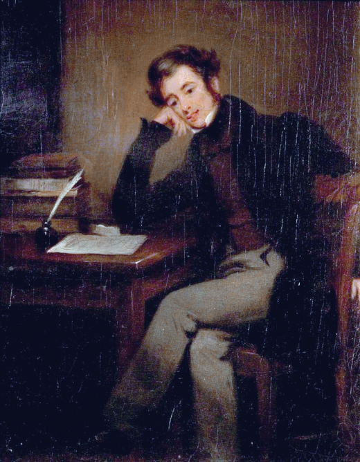 Self-portrait oil on panel 26 x 21.6 cm 19th century